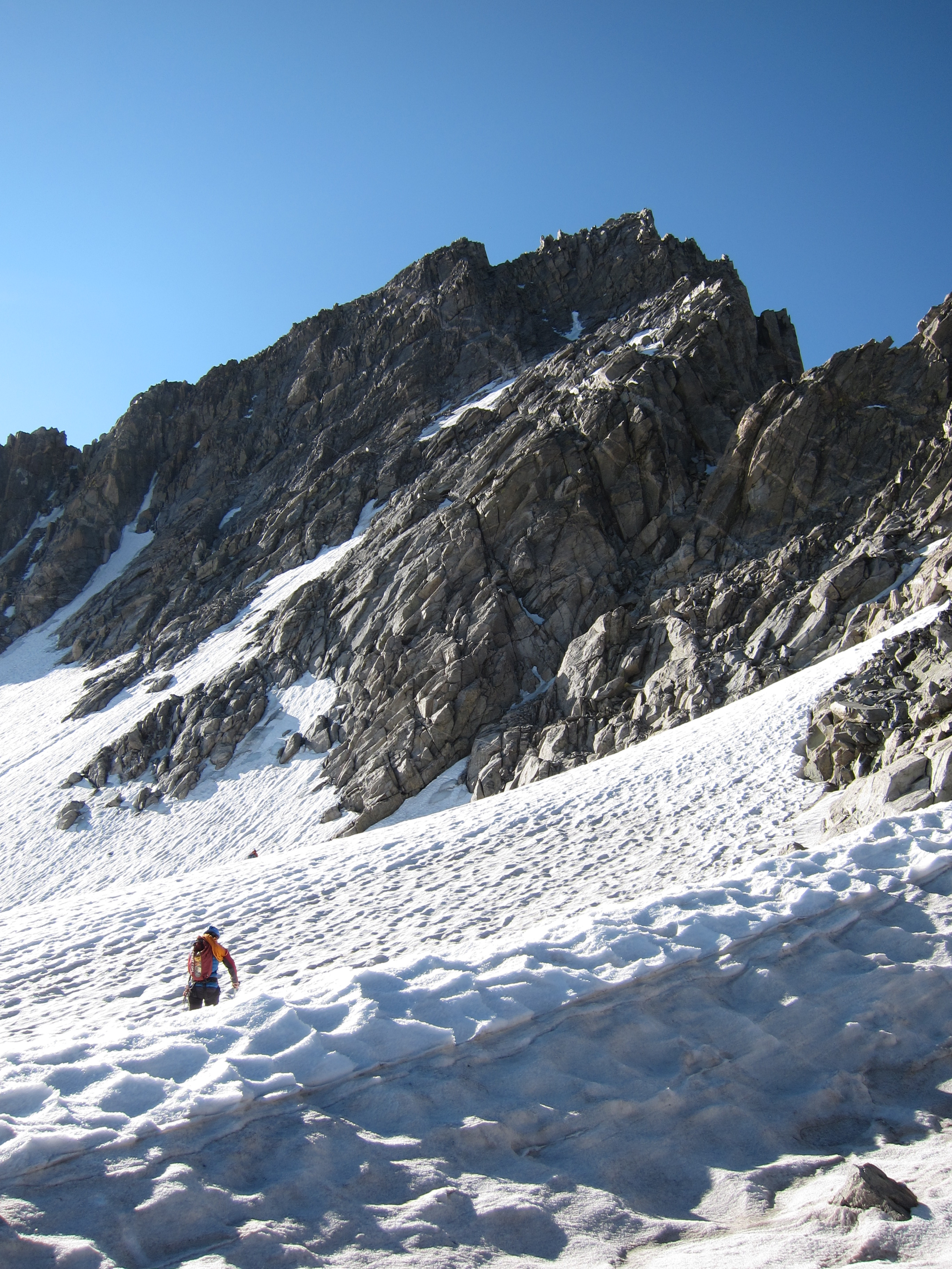 North ridge of Mt. Sacagawea seen from the east side. Wind River Range, Wyoming.